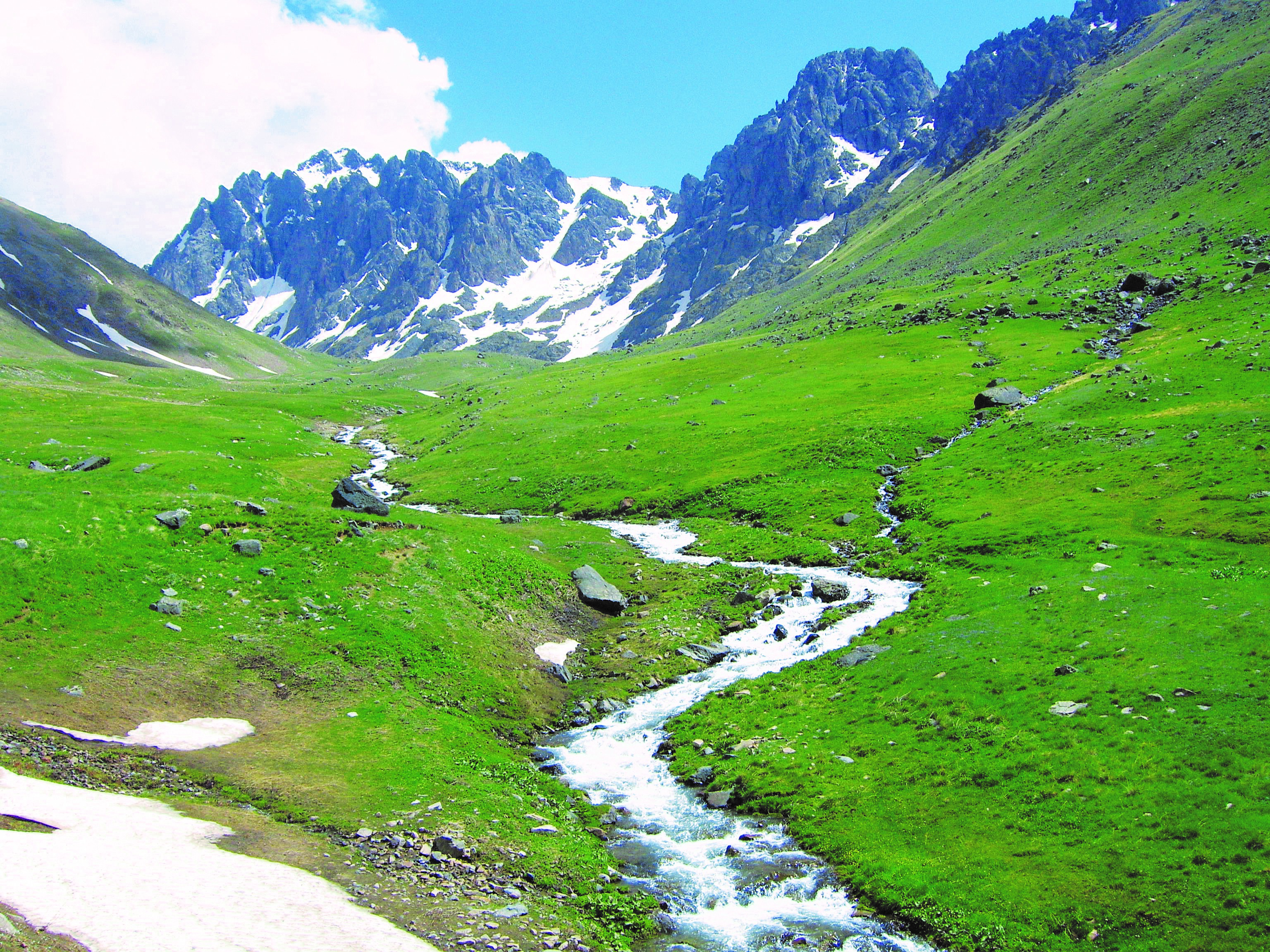 Orta Araz təbii vilayətində subalp və alp çəmənləri. Saggarsu çayının hövzəsi